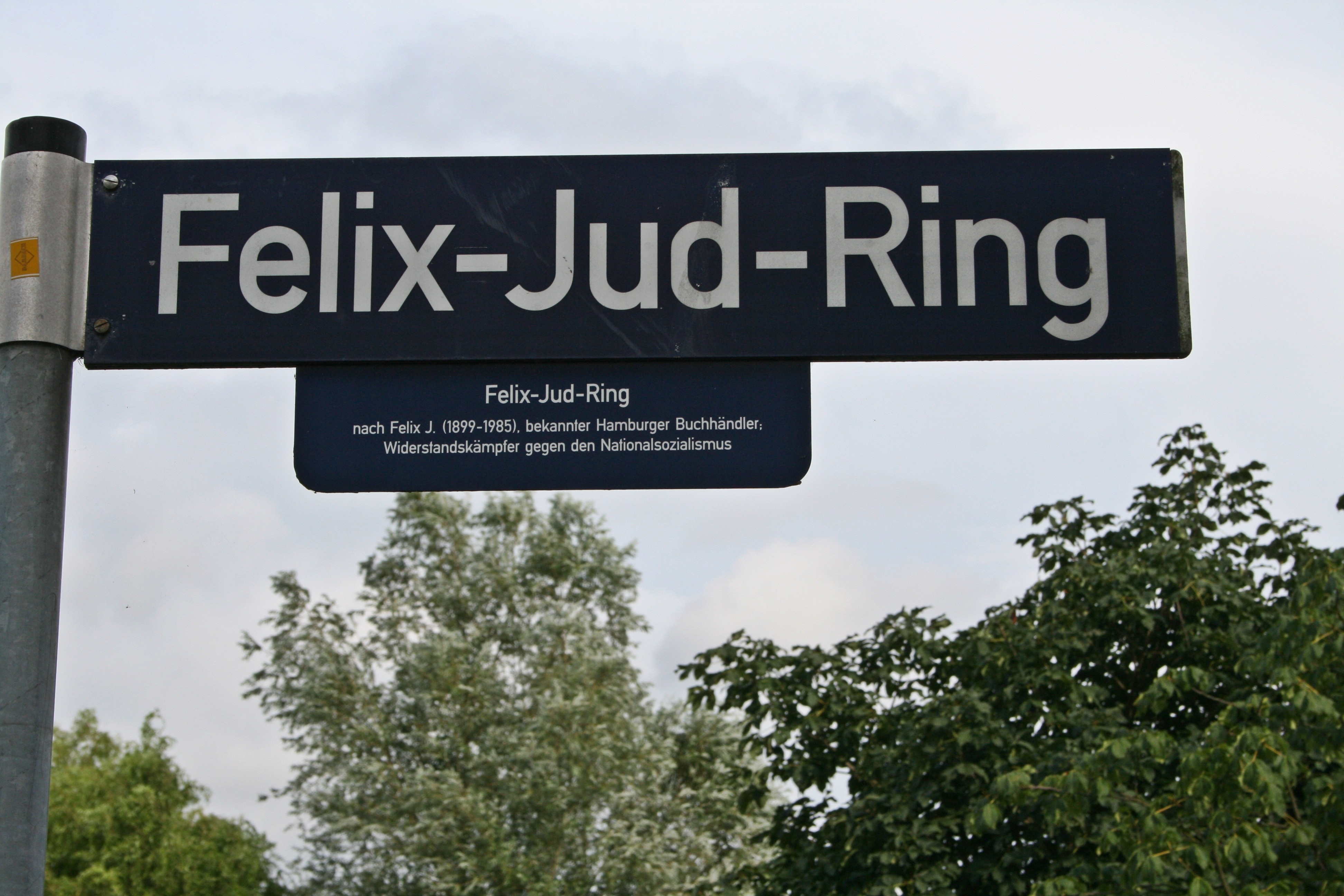 Road sign of the Felix-Jud-Ring, named after a member of the resistance against Nazism